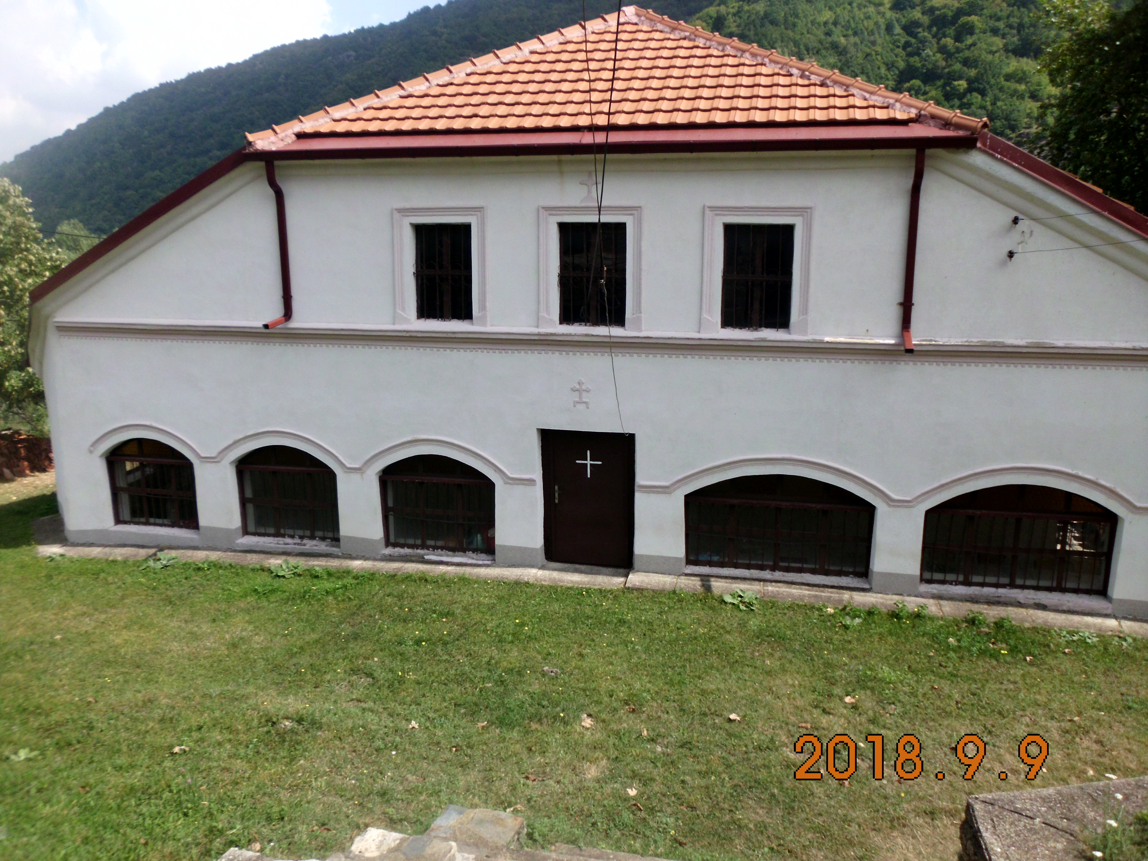 church St. Petka - south side